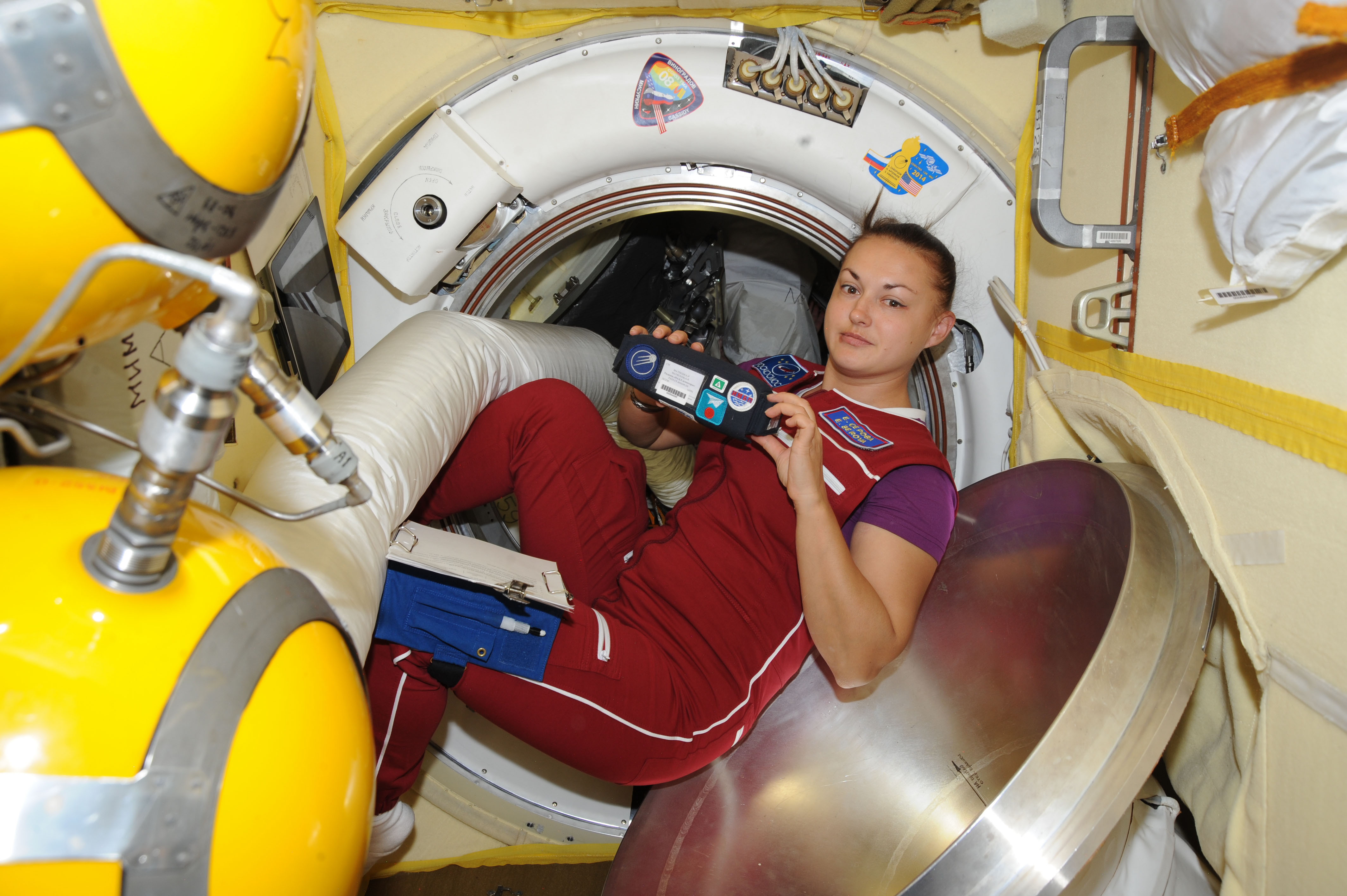 Russian cosmonaut Elena Serova, Expedition 41 flight engineer, poses for a photo near a hatch in the Russian segment of the International Space Station.